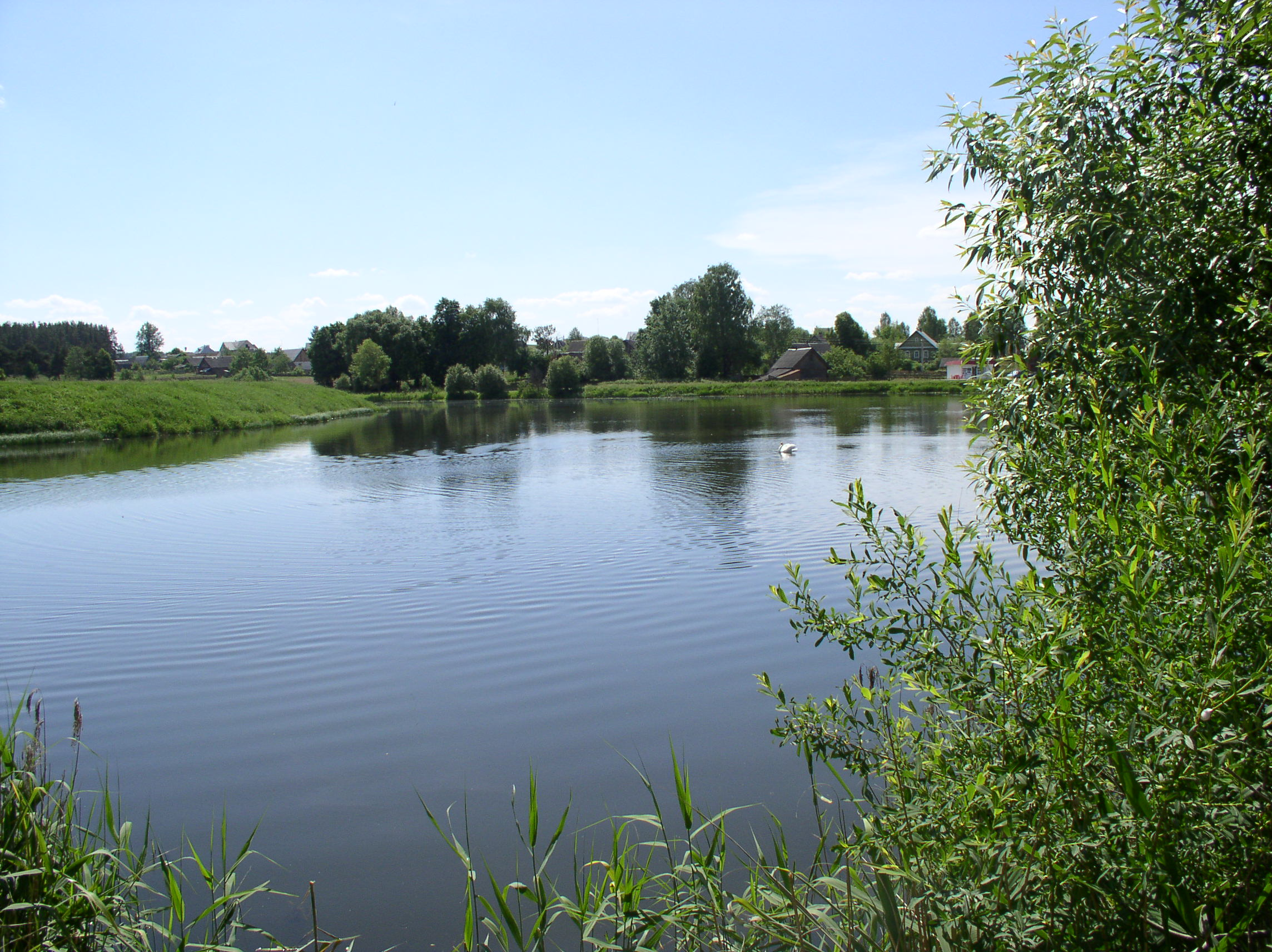 Islach river near Rakaw, Belarus.